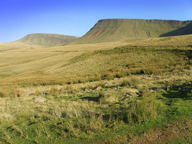 Carmarthen Fan Fan Foel and Picws Du rise above the moorland.